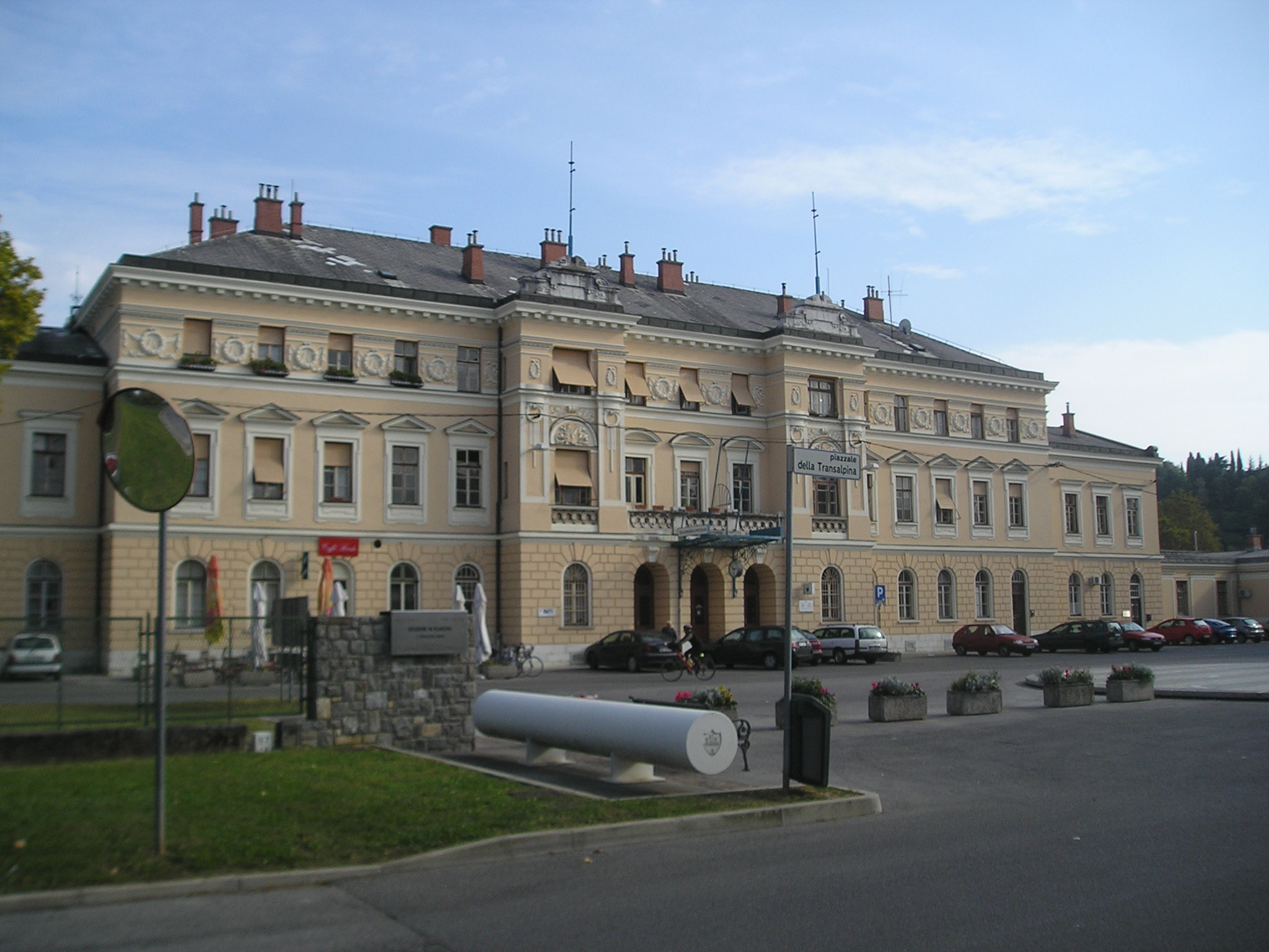 Train station in Nova Gorica, Slovenia, view from northwestern corner of Piazza Transalpina in Gorizia (Italy) - Slovenian part of this square is known as Trg Evrope